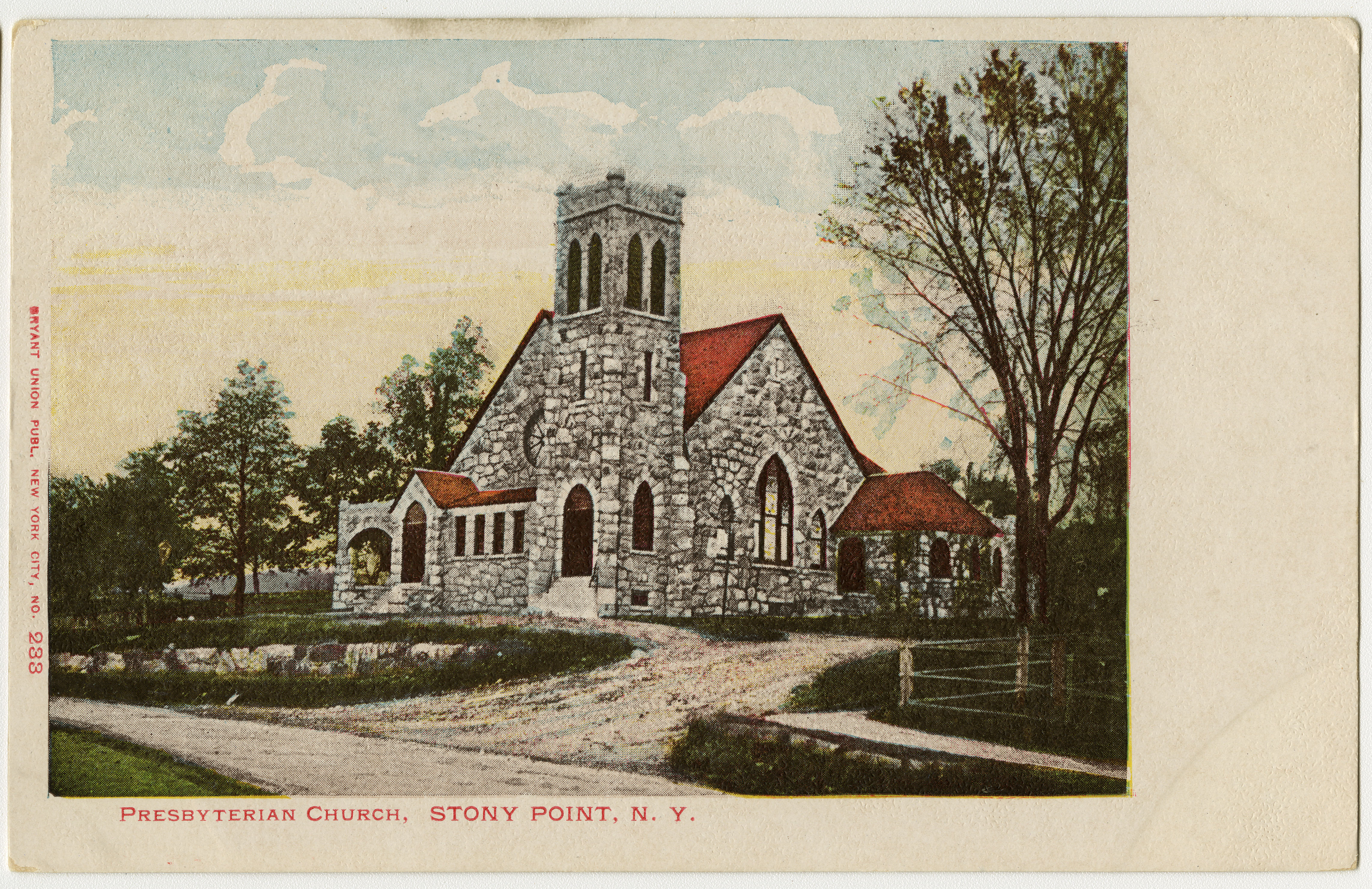 Presbyterian church in Stony Point, New York from a pre-1923 postcard From RG 428, Postcard Collection, Presbyterian Historical Society, Philadelphia, Pennsylvania